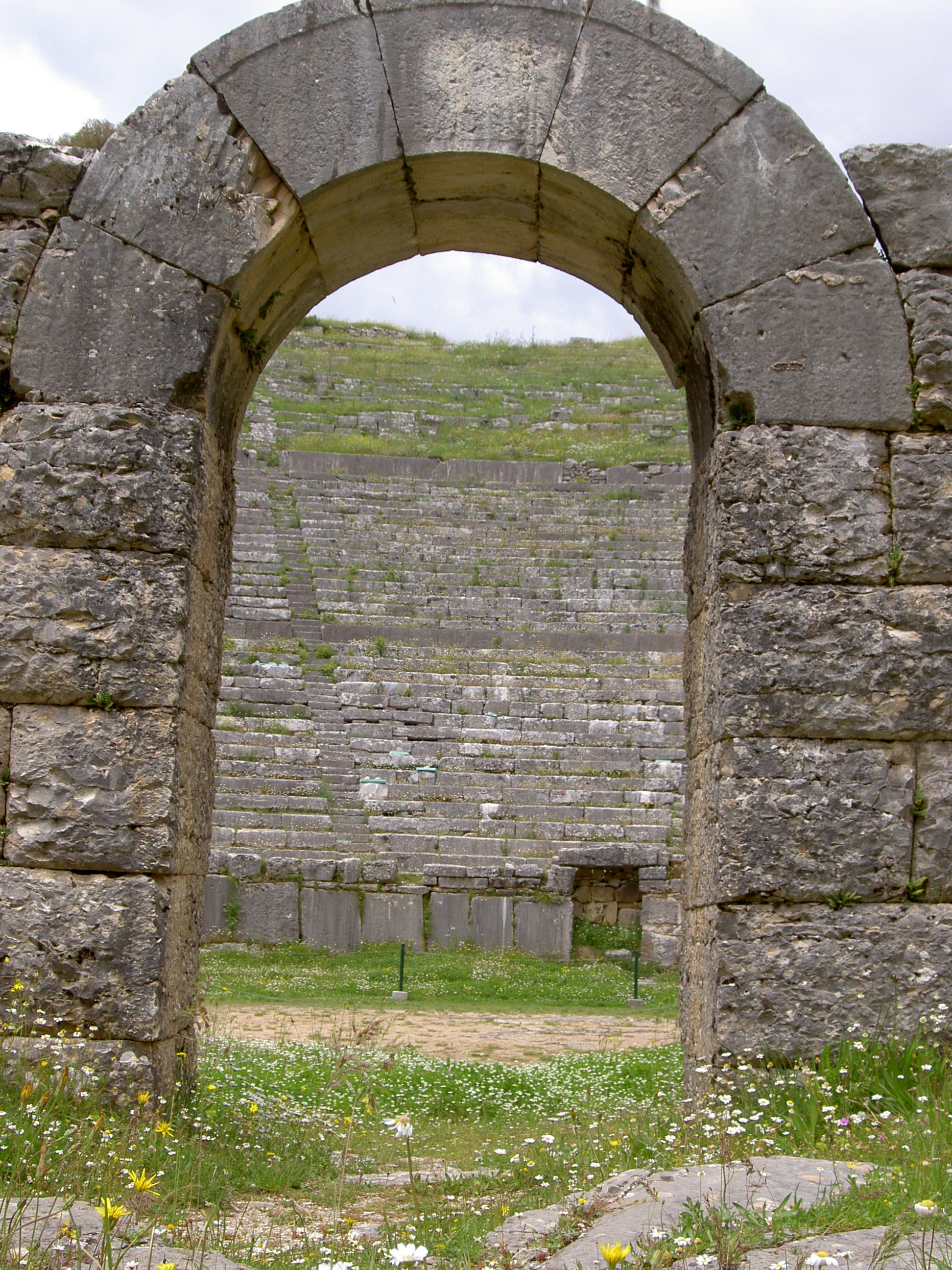 Ancient theatre at Dodona, Epirus, Greece